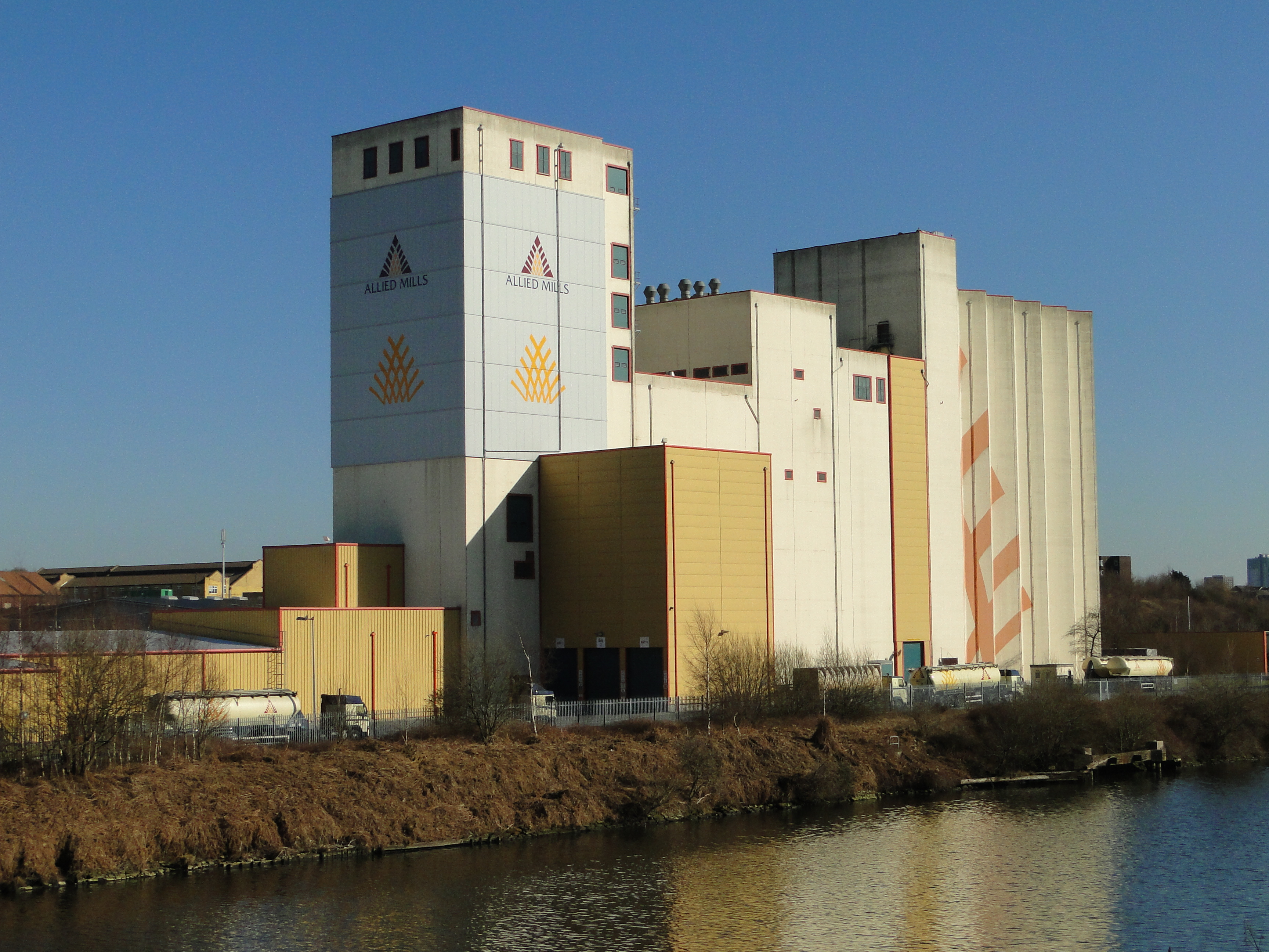 Allied Mills flour mill, Centenary park, on the side of the Manchester Ship Canal